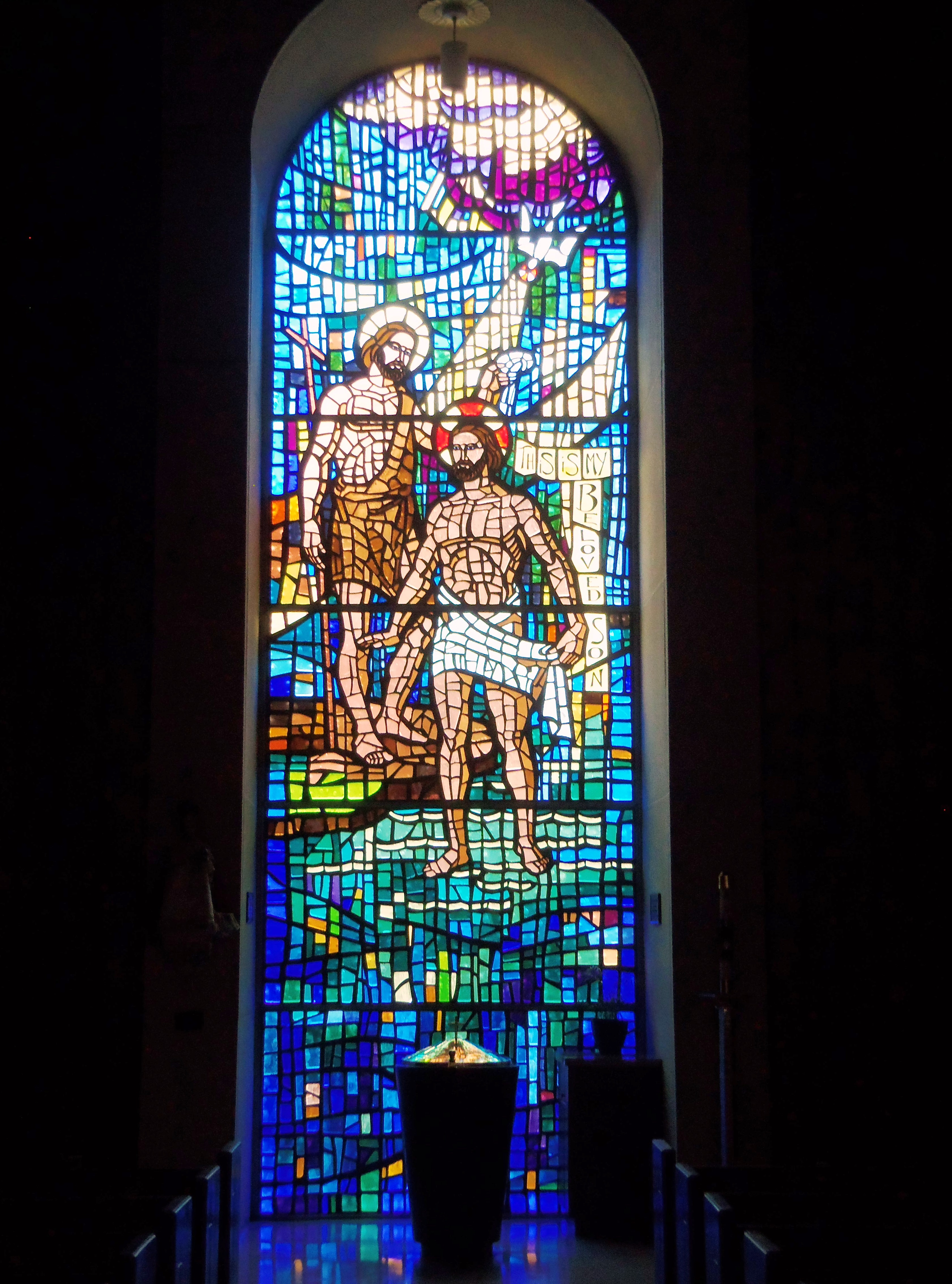 The baptistry at Saint Thomas More Cathedral in Arlington, Virginia is the seat of the Catholic Diocese of Arlington.